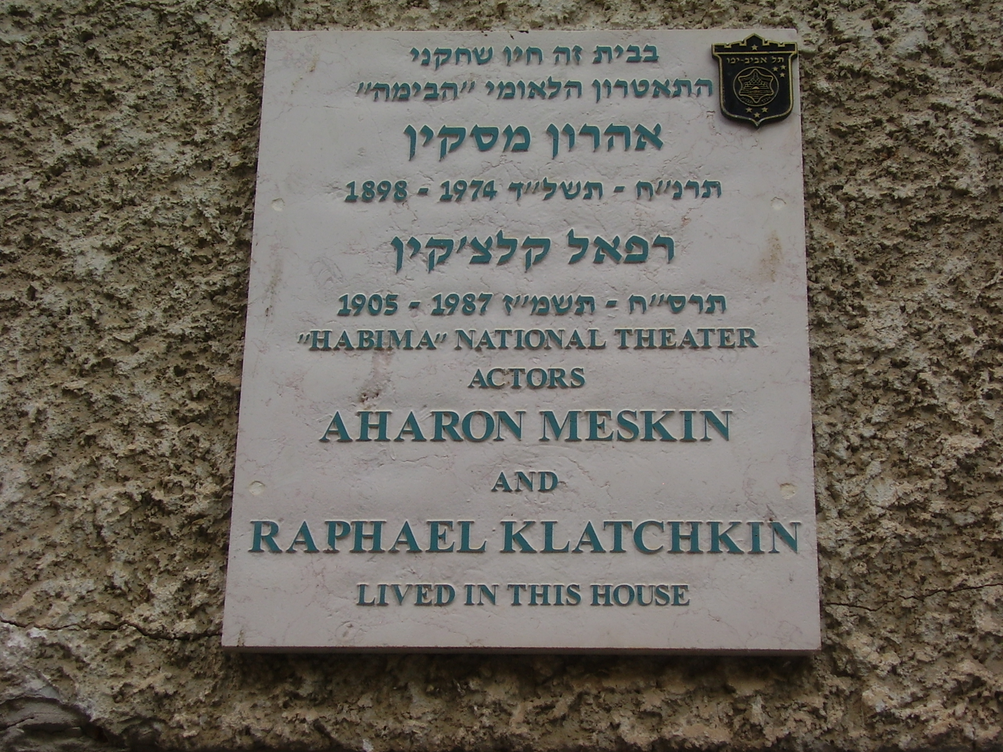 memorial plaque on the actors aharon meskin and raphael klatchkin in tel aviv לוחית זיכרון על ביתם של השחקנים אהרון מסקין ורפאל קלצ'קין ברח' פרוג 33 בתל אביב